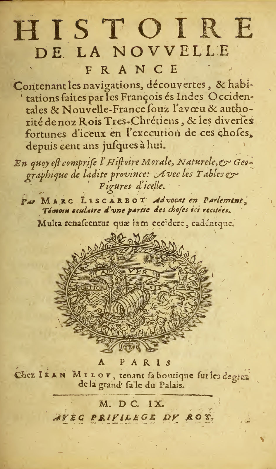 Front page of the book Histoire de la Nouvelle-France (1609) by Marc Lescarbot, as published by the Encyclopaedia Britannica